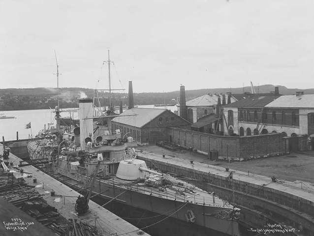 The Norwegian coastal defence ship HNoMS Harald Haarfagre in drydock at Karljohansvern naval base.